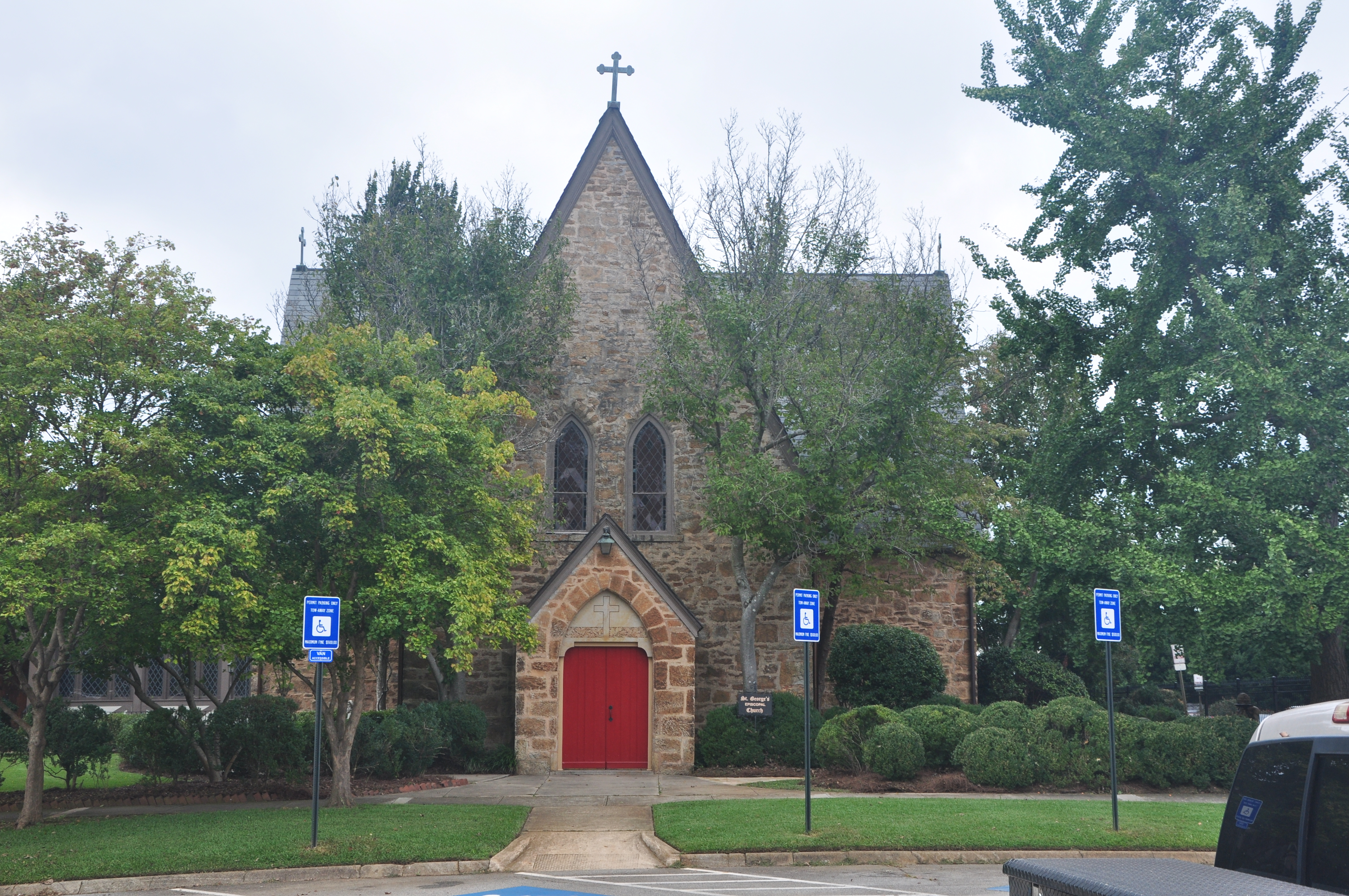 St. George